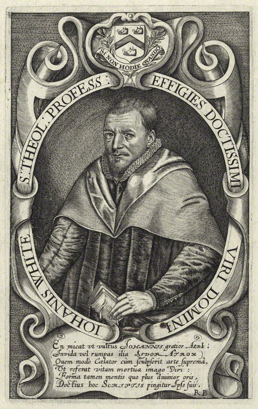 Portrait of John White (1570–1615), English clergyman.